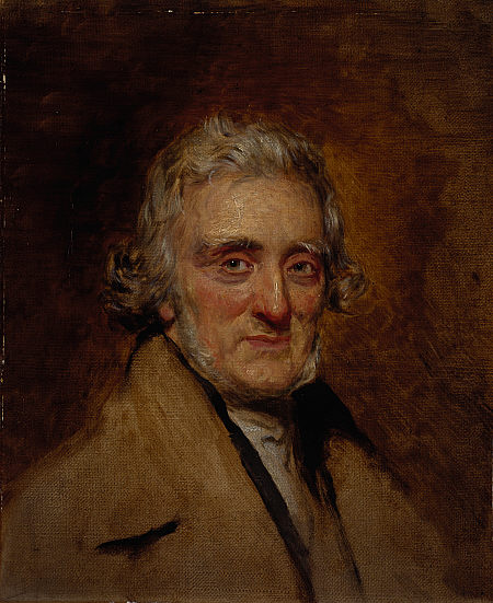 John Henning (1771-1851) was a Scottish carpenter who turned to sculpture. His masterpieces were the one twentieth scale models he created of the Parthenon and Bassae Friezes.